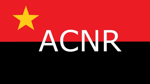 Flag used by the Asociación Cívica Nacional Revolucionaria militants, during their statements